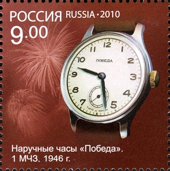 Wrist watch "Pobeda", First Moscow Watch Factory, 1946.